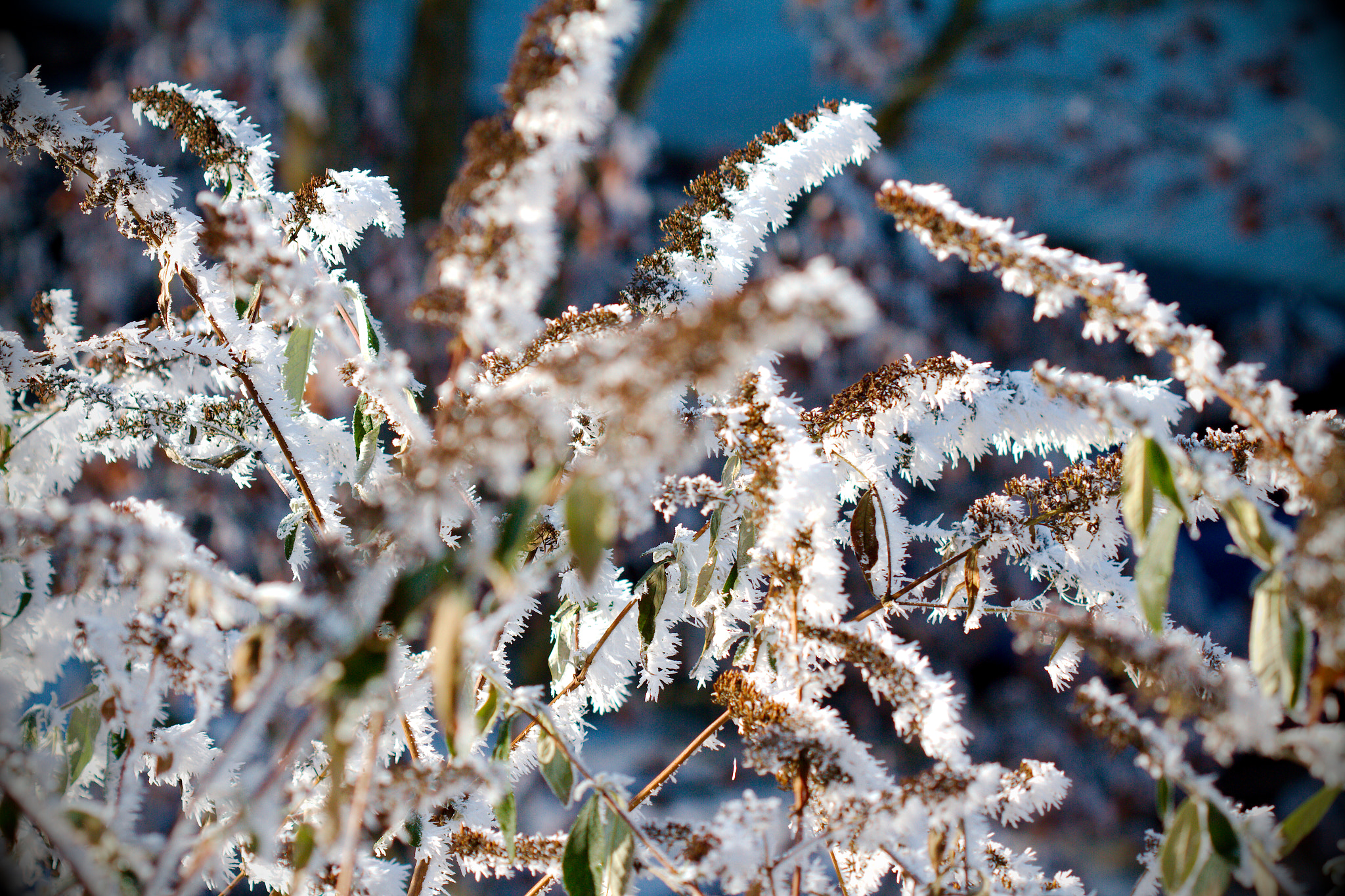 500px provided description: Everything is covered by ice. [#winter ,#nature ,#leafs ,#ice ,#ndof]